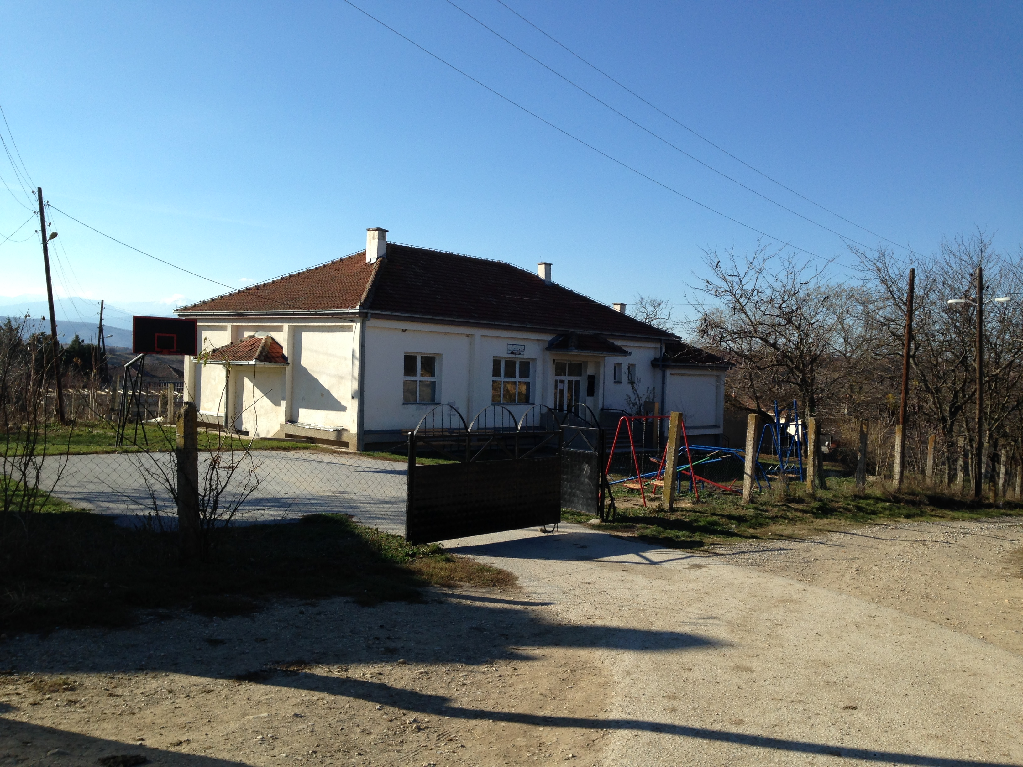 village of Mamutčevo, near Veles, Macedonia